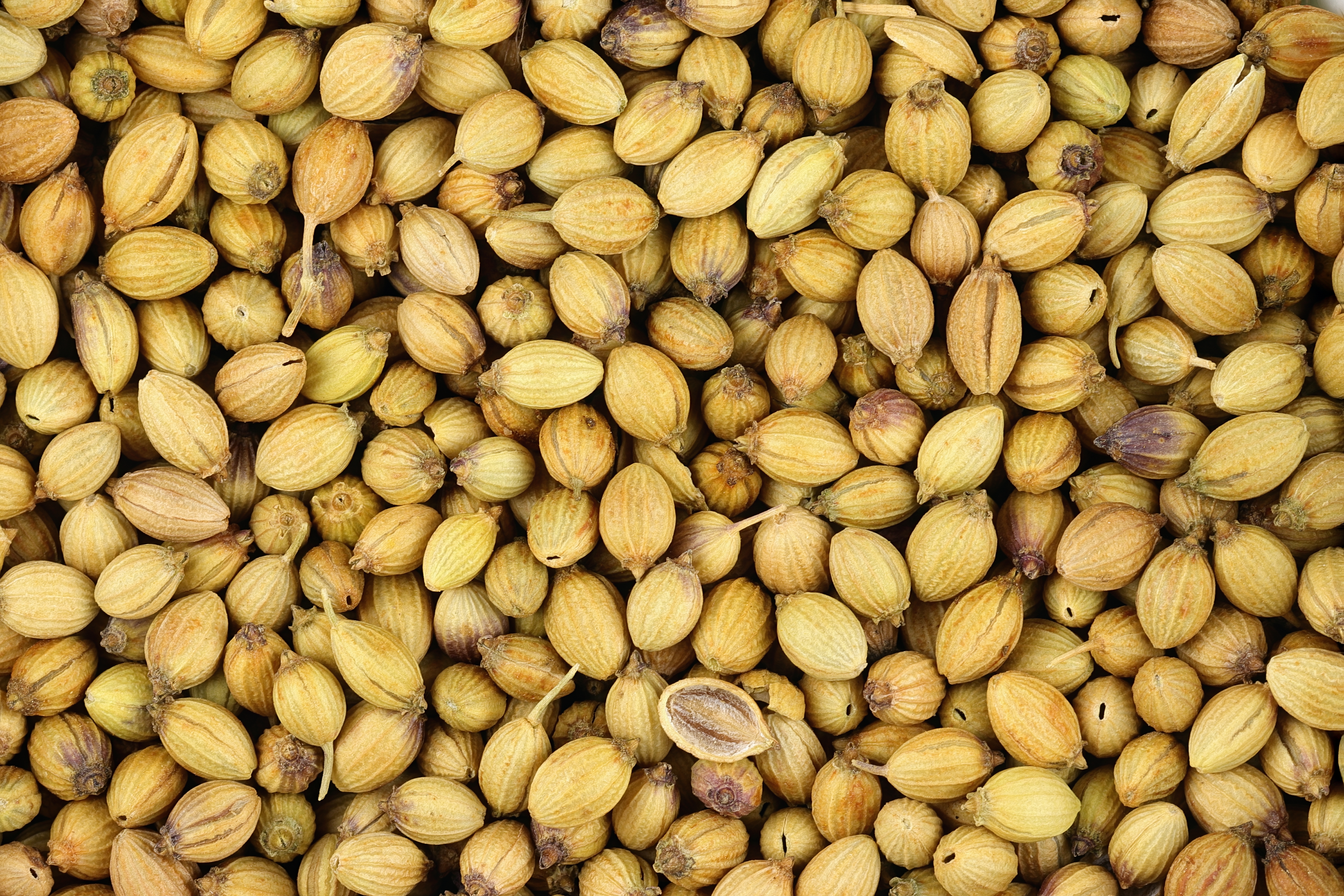 Seeds of the Coriander (Coriandrum sativum) Plant. Size of each seed is about 3.5 mm x 5 mm.